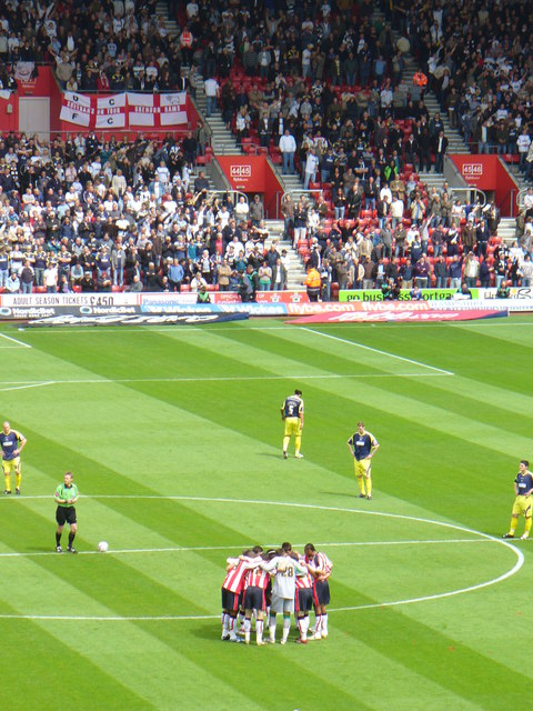 Before the Kick-off. Southampton huddle together before kicking off against Derby County at St Mary's Stadium on May 12 2007.